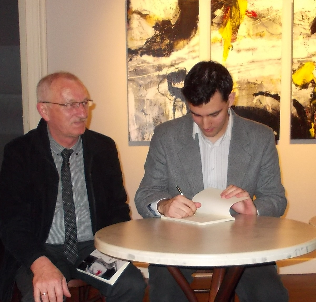 Károly Sándor Pallai - Book presentation and signing - ArtSalon Tarsalgo Gallery